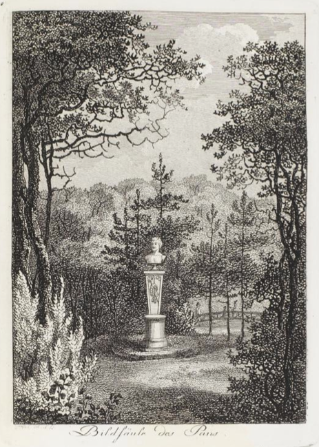 Pan in the Seifersdorf Valley in Saxony